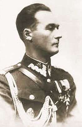 Józef Jaklicz (1894-1974) – Colonel of the Polish Army